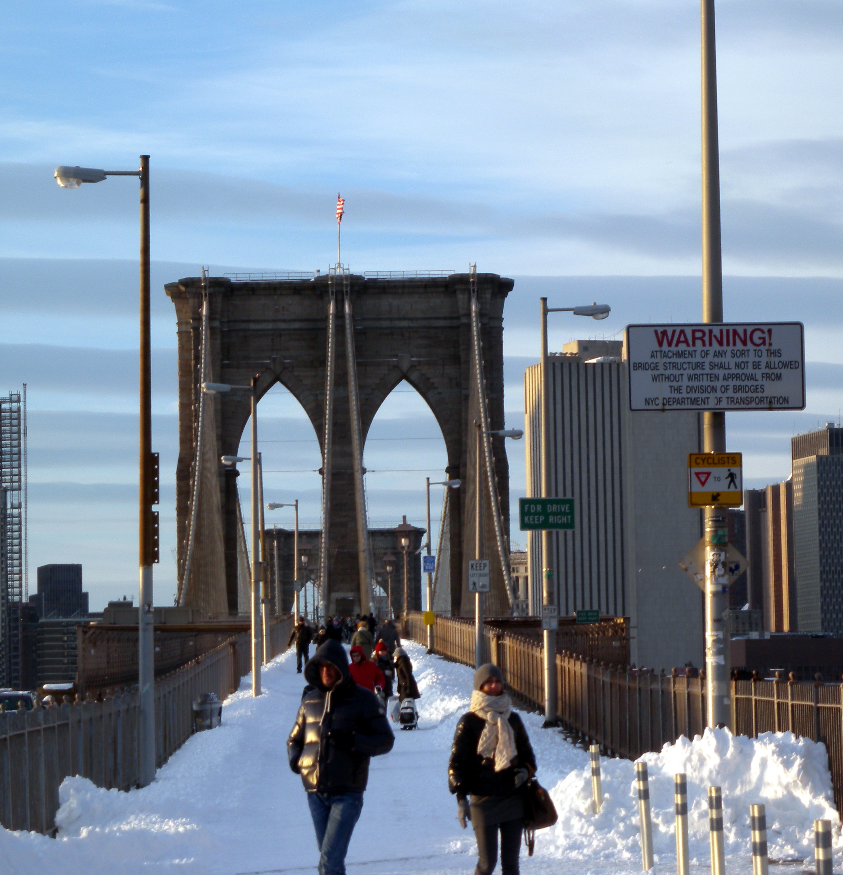 Looking northwest along Brooklyn Bridge central walkway from near the Washington Street stair on a mostly sunny afternoon after snow.